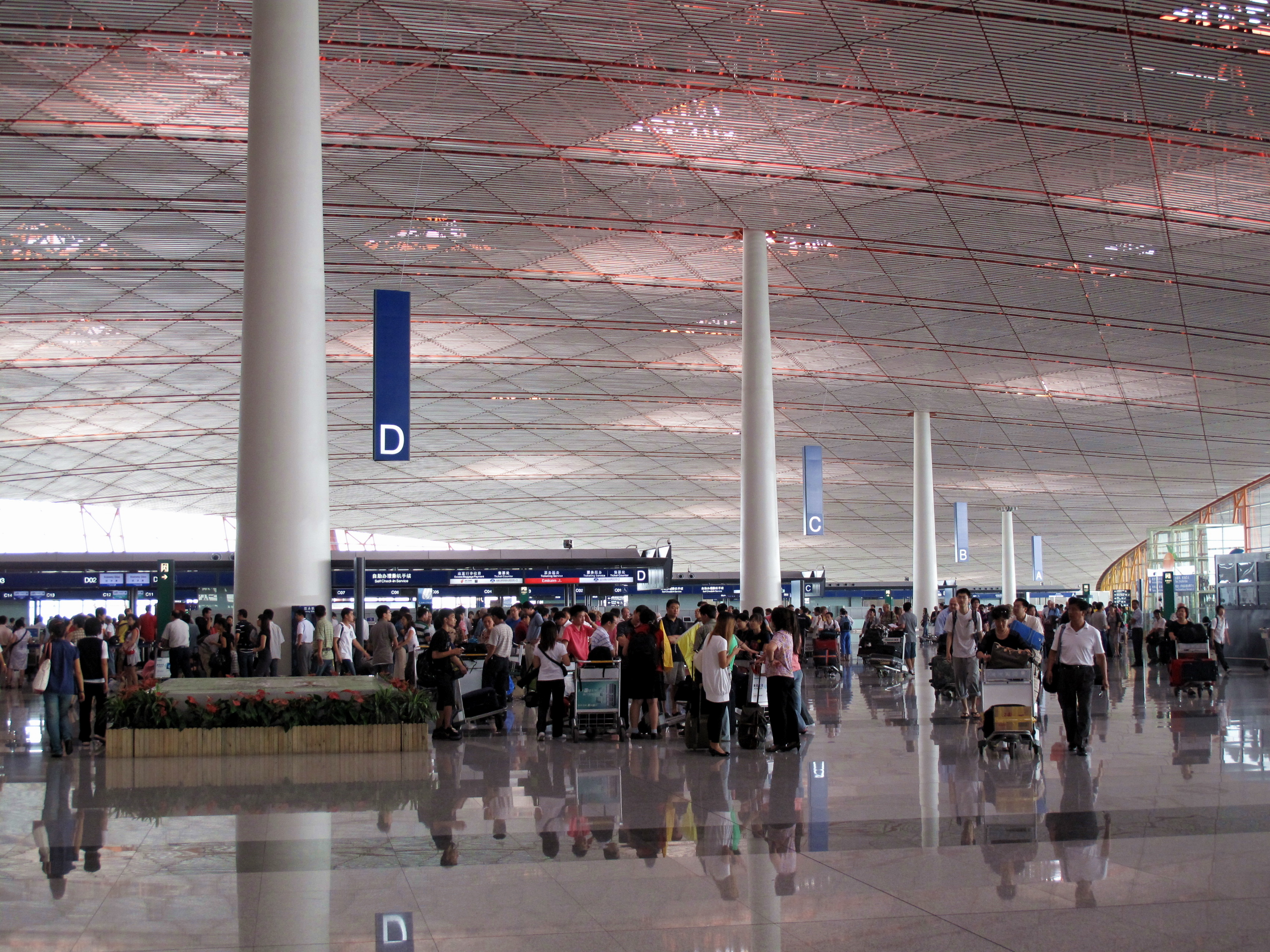 Interior of Beijing Capital International Airport Terminal 3